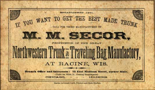 An example of a M. M. Secor Company's manufacturer's label